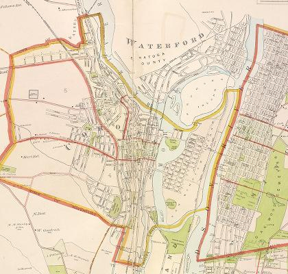 Map of the city of Cohoes in 1891